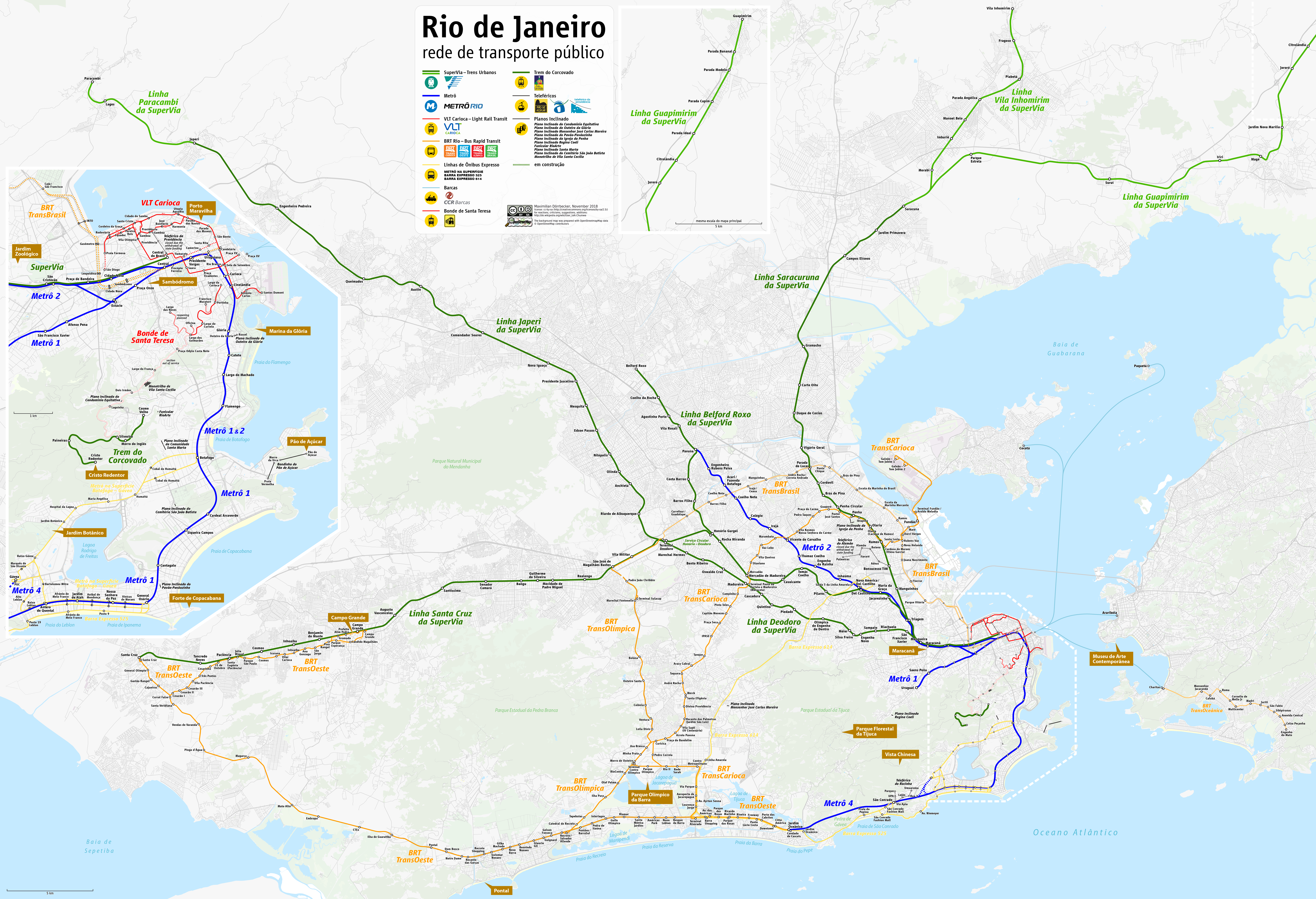 Public transport map of Rio de Janeiro